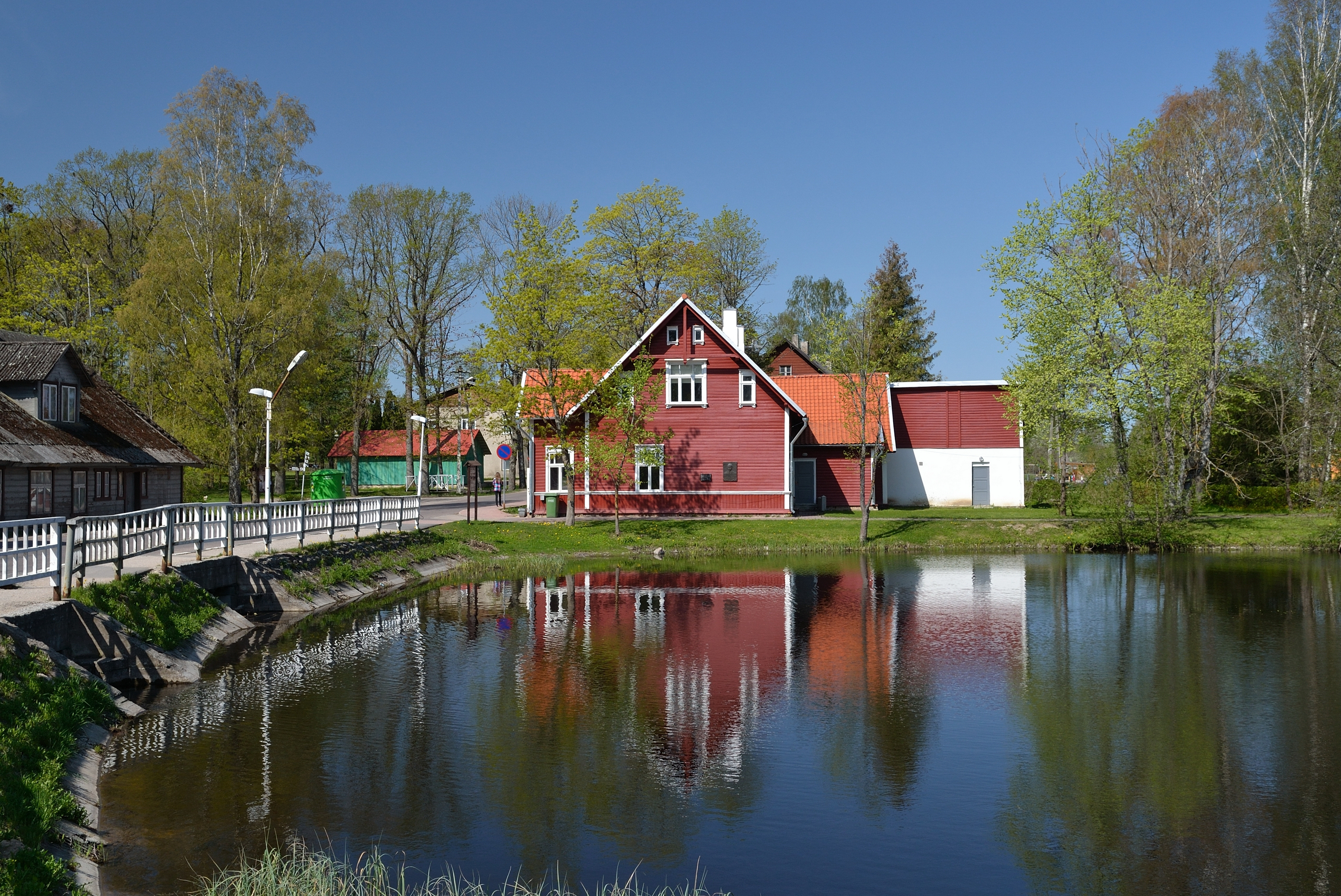 Palamuse impounded lake (Amme river). Red building is Palamuse pharmacy, built in 1894.